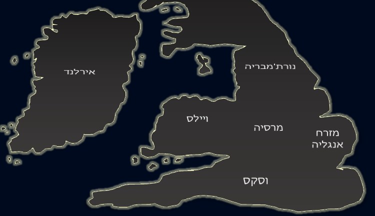 Map of the world of The Last Kingdom.